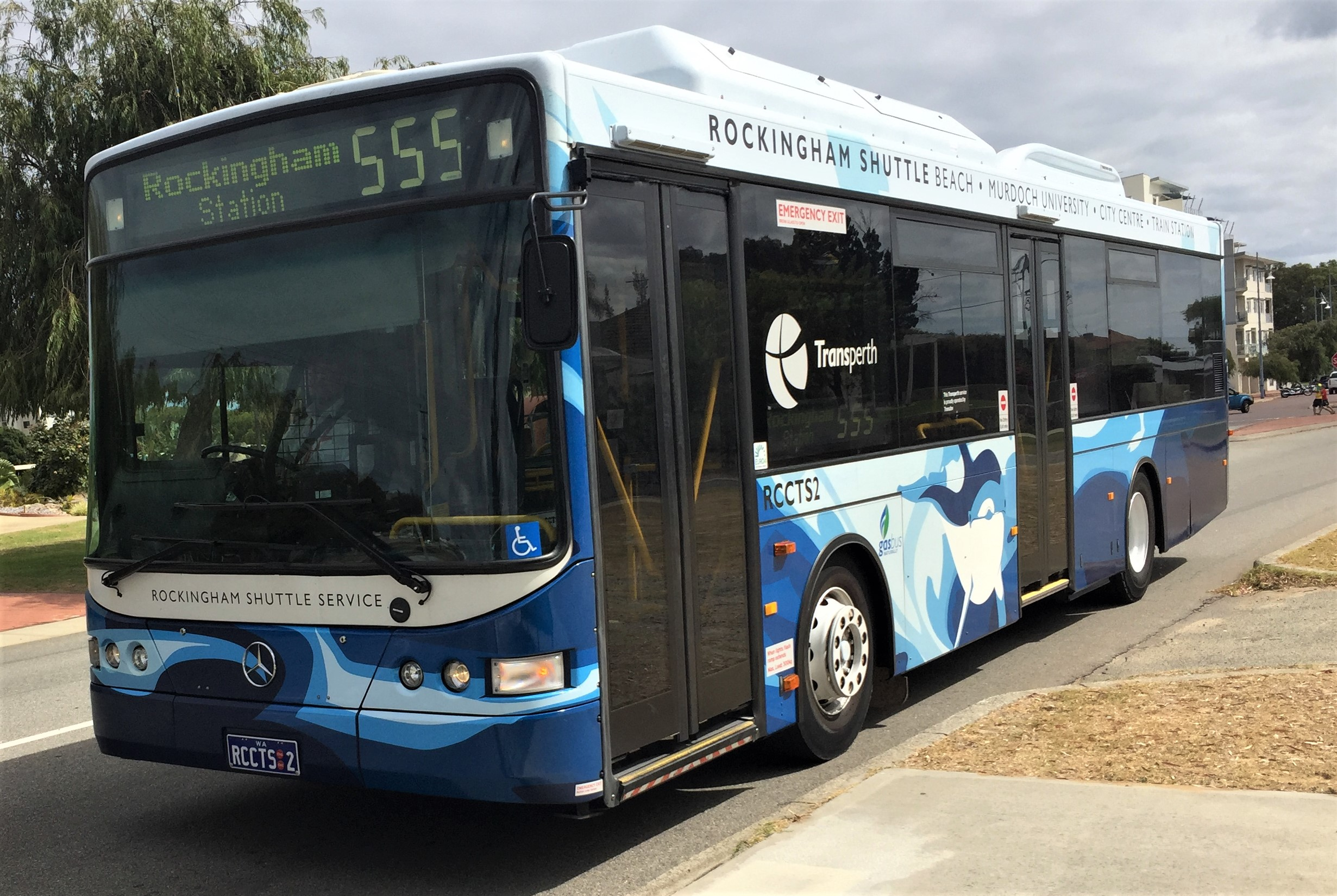 RCCTS2 seen here on Wanliss St, Rockingham